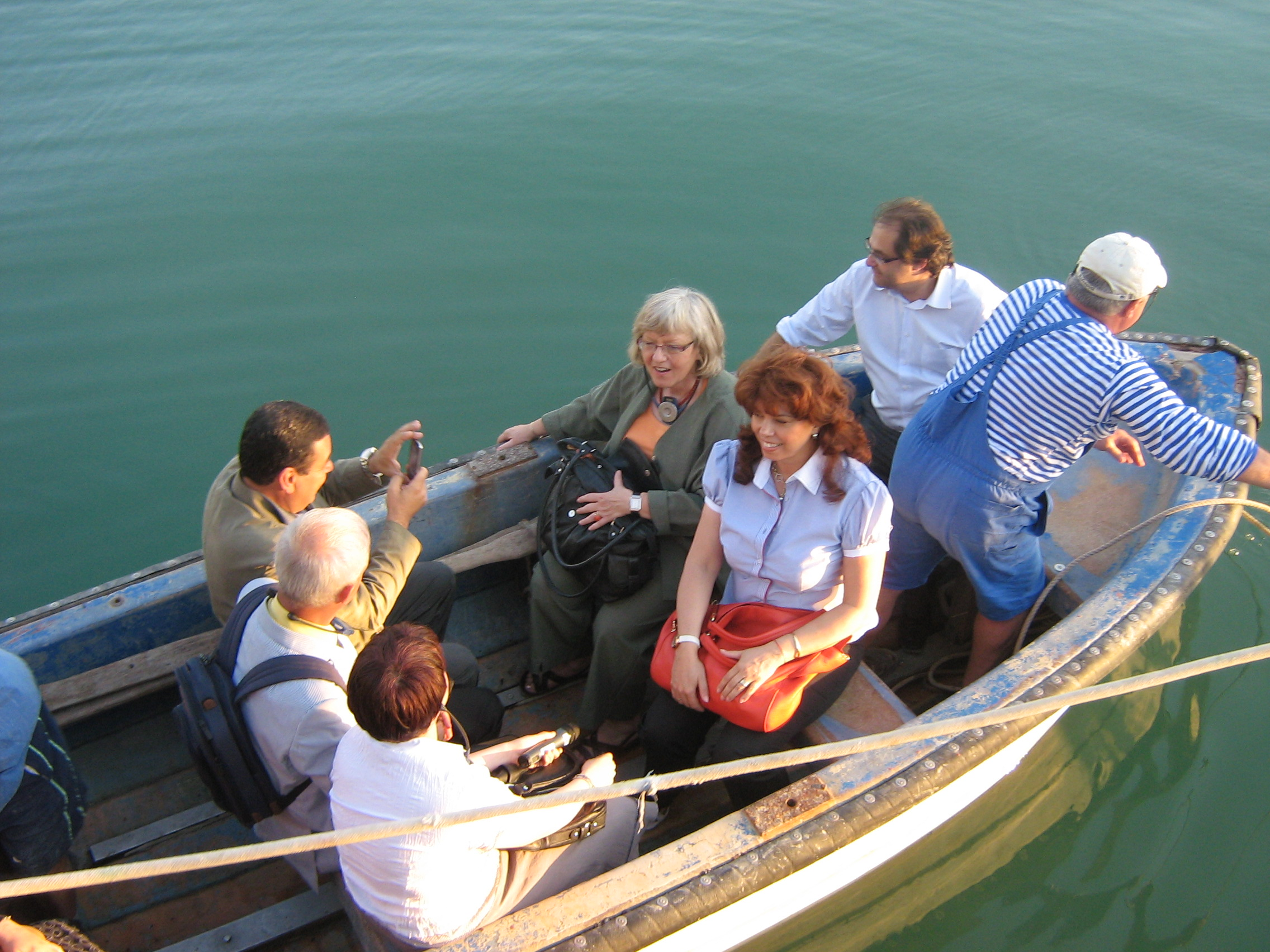 People take a boat ride